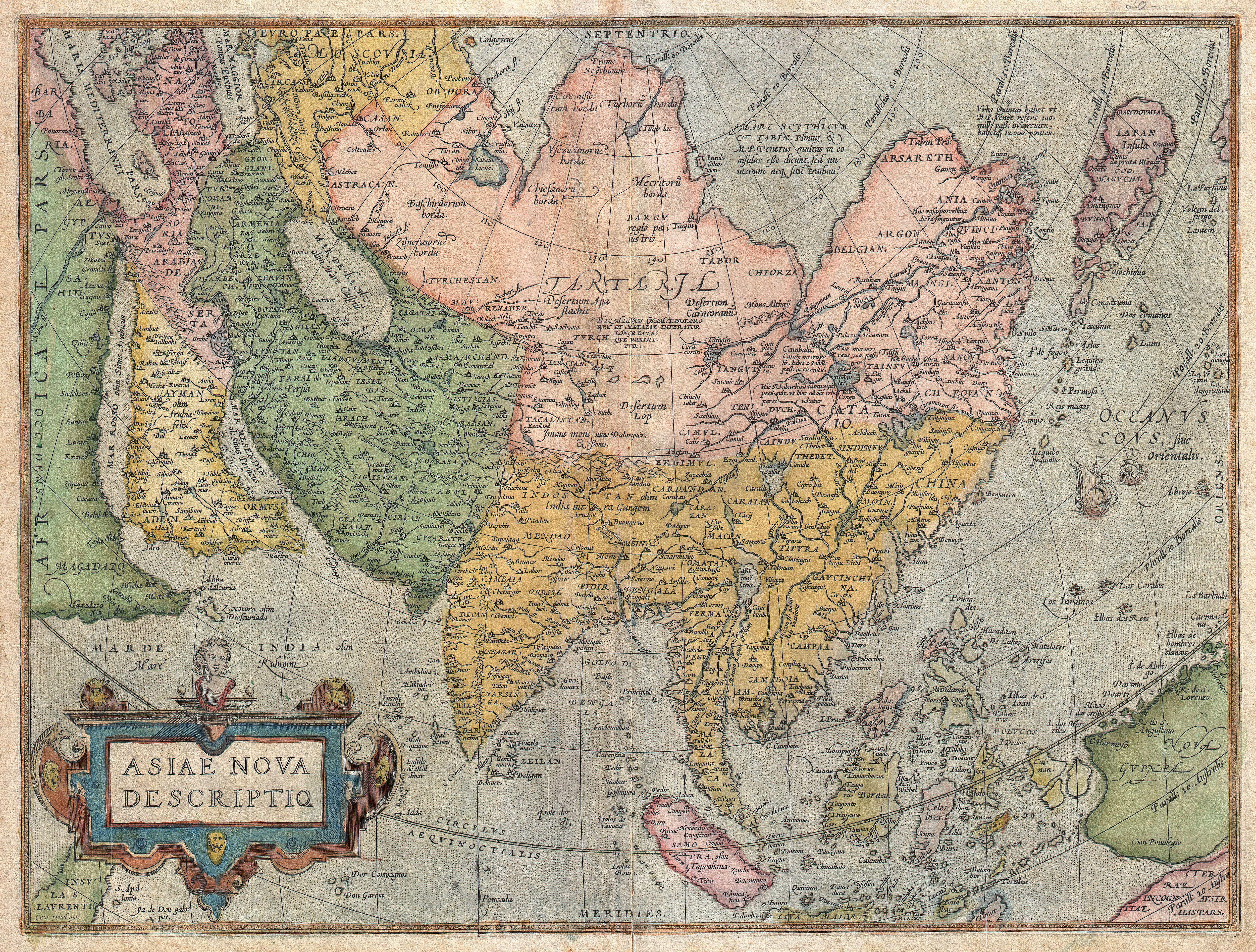 A scarce and stunning first edition example of Abraham Ortelius’ important 1572 map of Asia. Covers from Europe and Africa eastward to include all of Asia, the East Indies, Japan, and parts of New Guinea and Australia. From west to east, this map offers numerous elements worthy of further study. The Caspian Sea, according to the convention of the time, is presented on an east-west rather than north-south axis. Arabia is projected in a distended form. Further east in western China, Cayamay lacus is depicted. This mythical body of water was postulated by Ortelius to be the source great rivers of Southeast Asia. Indeed, Ortelius crisscrosses East Asia with a vast network of waterways advocating his belief that a water route existed through China to the North Sea and hence, via the Northeast Passage, to Europe. Still further east Japan appears in a distorted top heavy projection that resembles a tadpole. To the south Luzon is absent from the Philippine Islands. In the extreme southeast portion of the map Australia appears as “Terrae Incognitae Australis”. East of China, two sailing ships ply the waters of the Pacific. A large decorative title cartouche adorns the lower left hand quadrant. Ortelius based this map on his own wall map of 1567. This map was issued as page 3 in the 1872-73 German language edition of Ortelius’s Theatrum Orbis Terrarum and corresponds to Van den Broecke’s Ort 6 classification, predating the more common Ort 7 map of Asia that appeared in 1574.